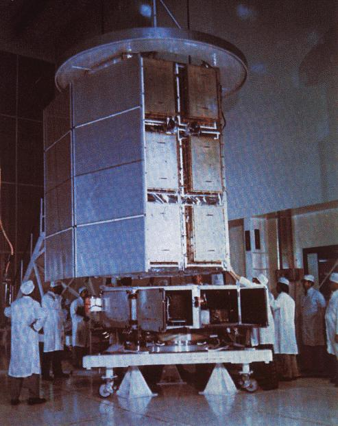 Image of the HEAO-1 satellite before launching